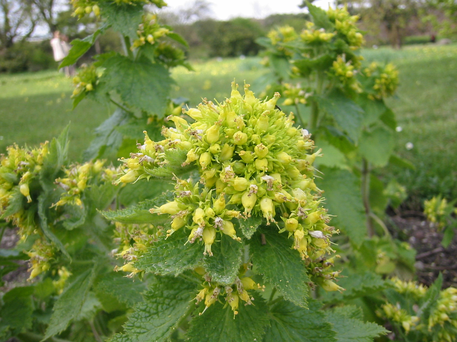 Scrophularia vernalis